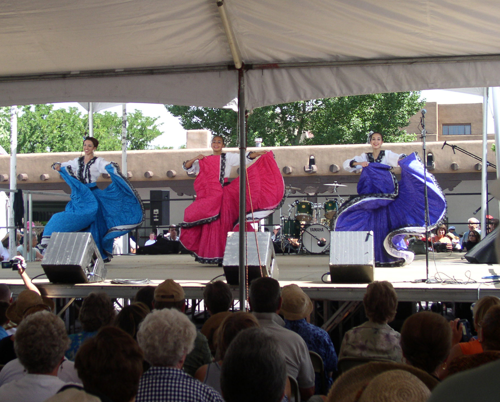 Spanish Dancers, Santa Fe Plaza.